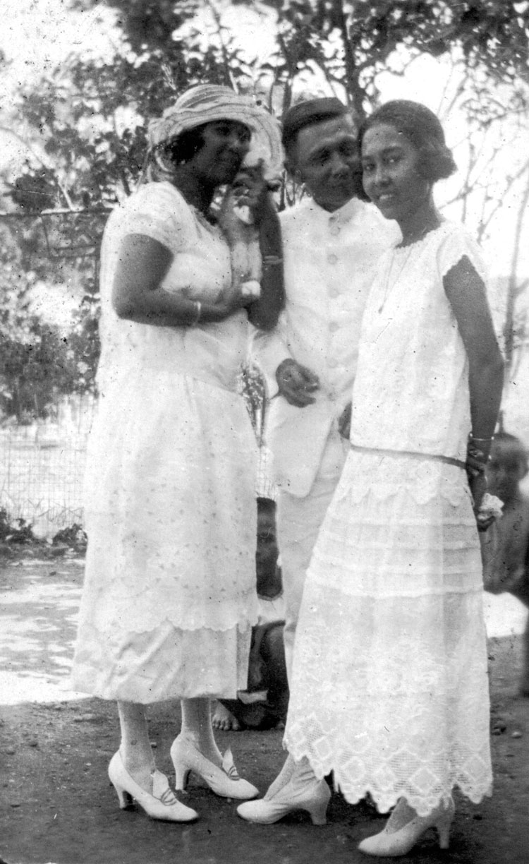 Tropical colonial Indo Eurasian male and female dress. Semarang, Java, Dutch East Indies, 1922.